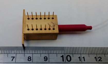 Dual-In-Line package for laser doides, bottom view